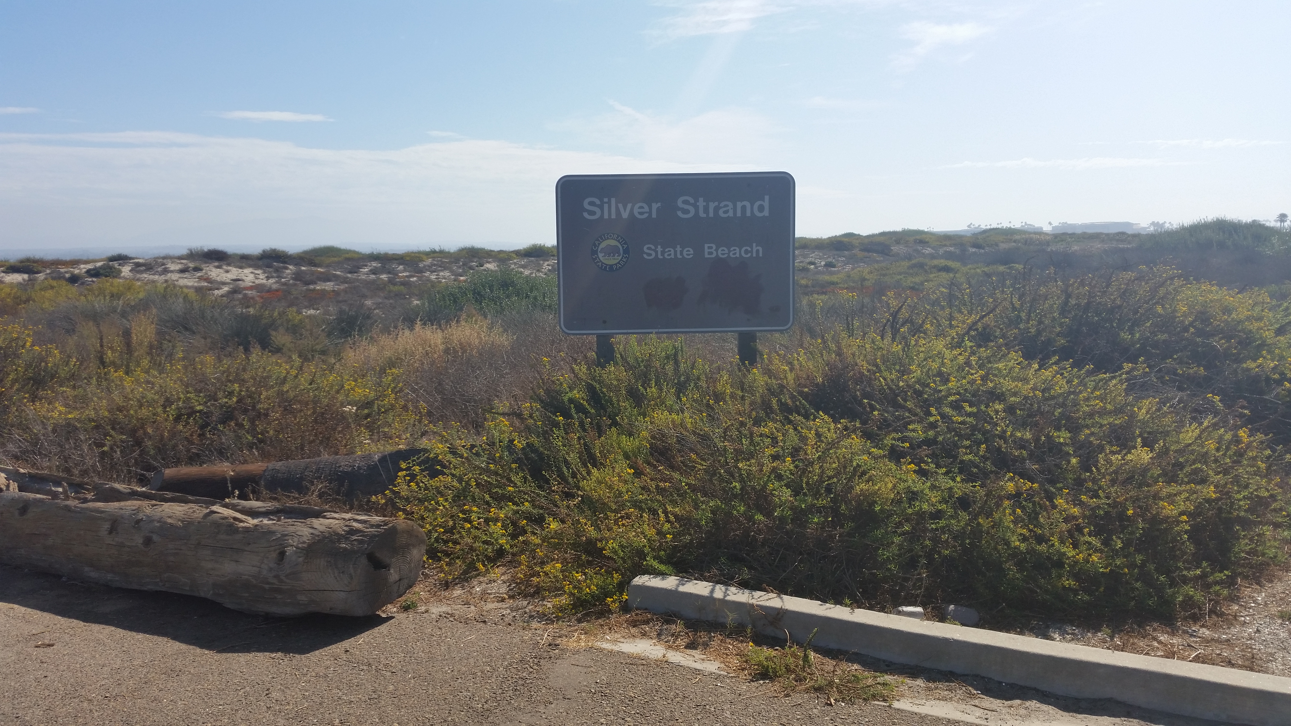 Sign marking part of the northeast extreme of Silver Strand State Beach.